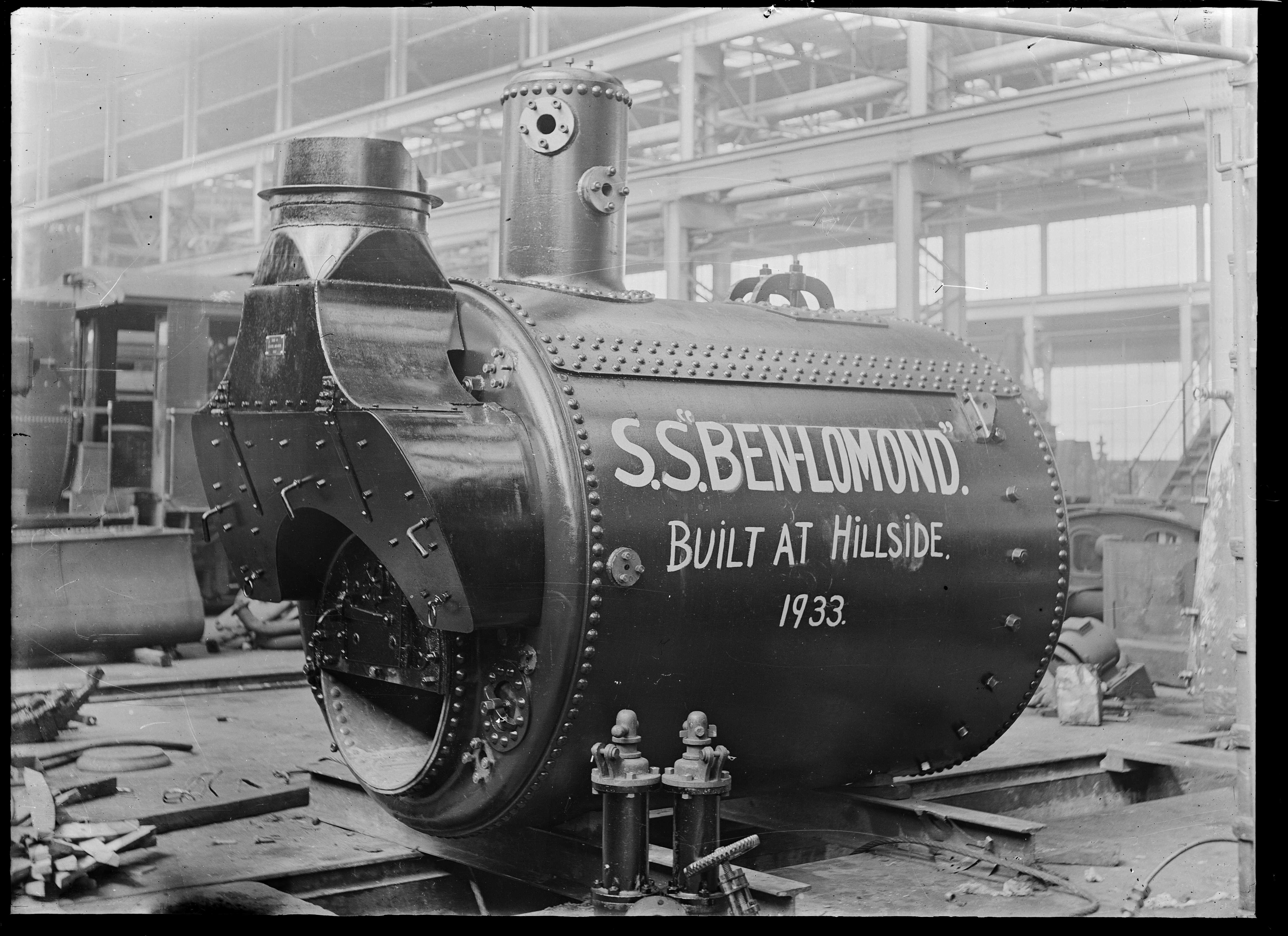 View of a newly constructed boiler for the steamship "Ben Lomond" built at Hillside Railway Workshops, 1933. Lettering on the boiler reads "S.S. "Ben-Lomond". Built at Hillside. 1933". Photographed by Albert Percy Godber.